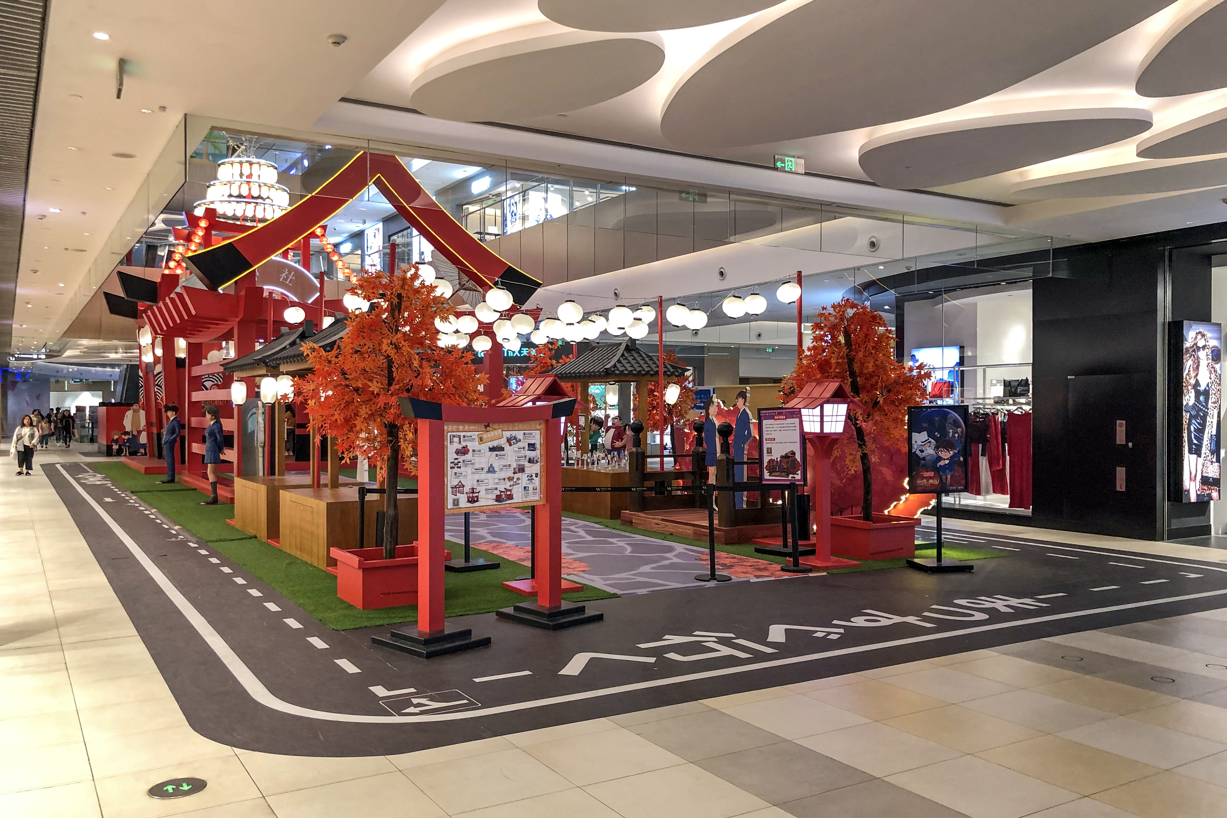 Part of Kaito Kid's Challenge. Imagine the Kiyomizu-dera in autumn... yeah, these days.